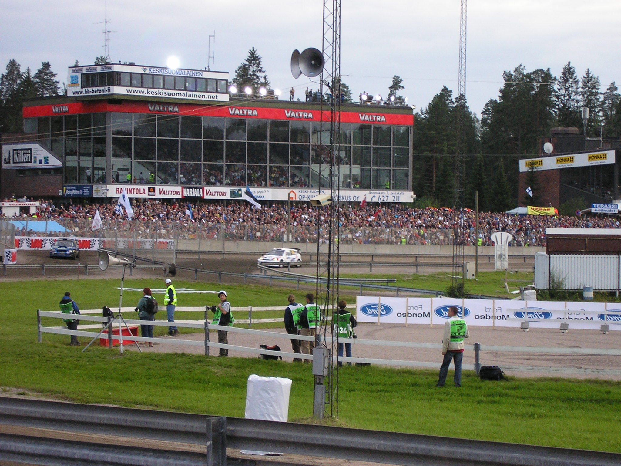 Killeri during Rally Finland 2007